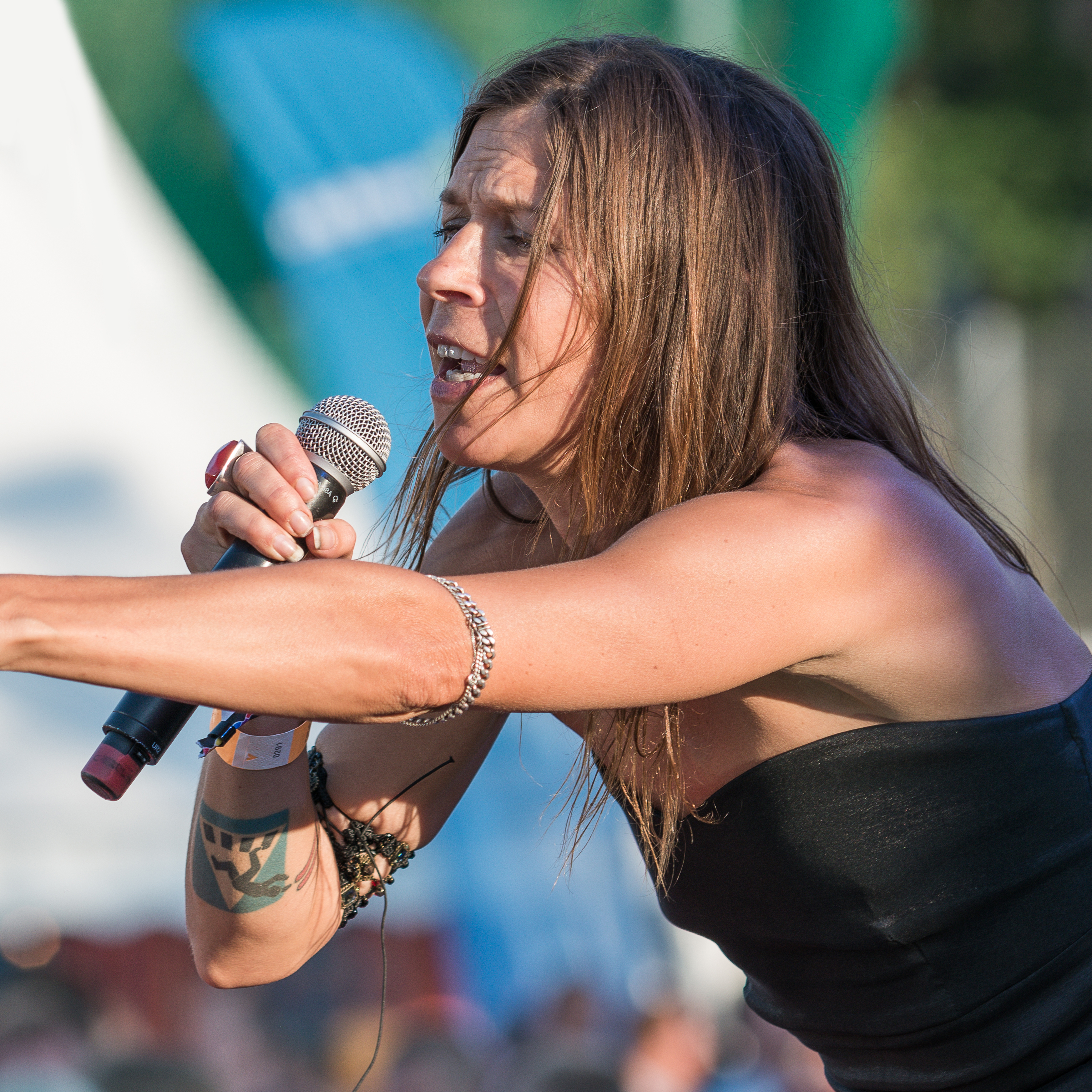 Caroline af Ugglas July 2014